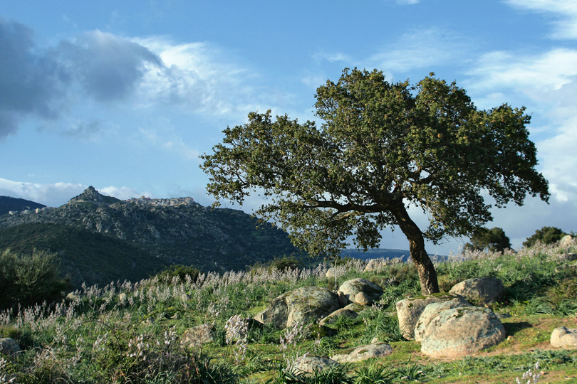 The city of Orune in the Province of Nuoro, Sardinia, Italy